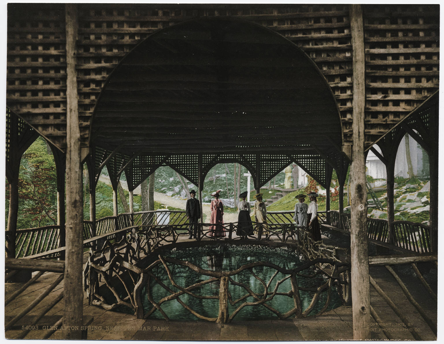 Glen Afton Spring, near Pen Mar Park. (Washington County, Maryland.) A photochrom postcard published by the Detroit Photographic Company.